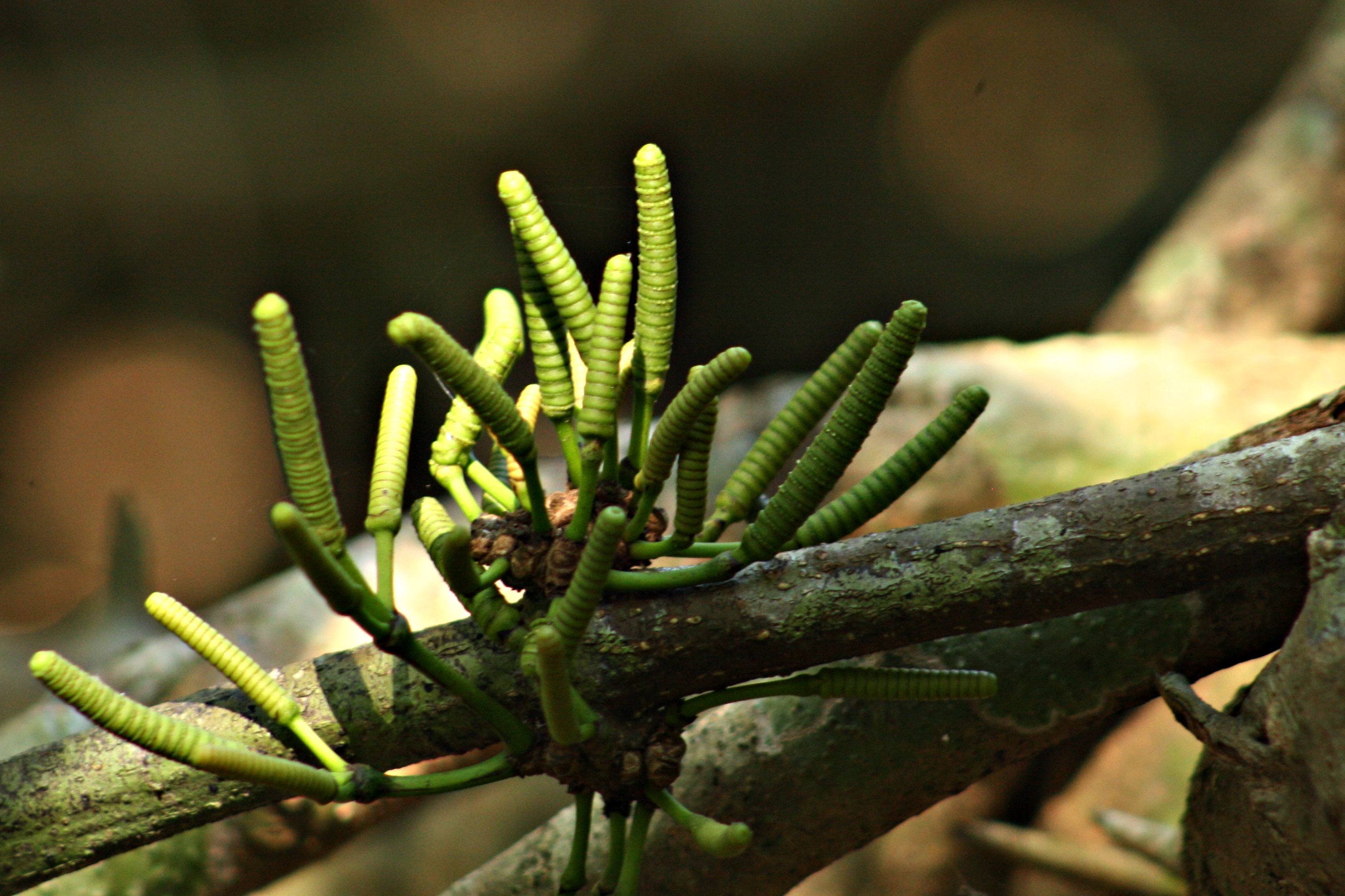 At Neeliyarkottam. Gnetum latifolium is an evergreen woody climber seen in western ghats